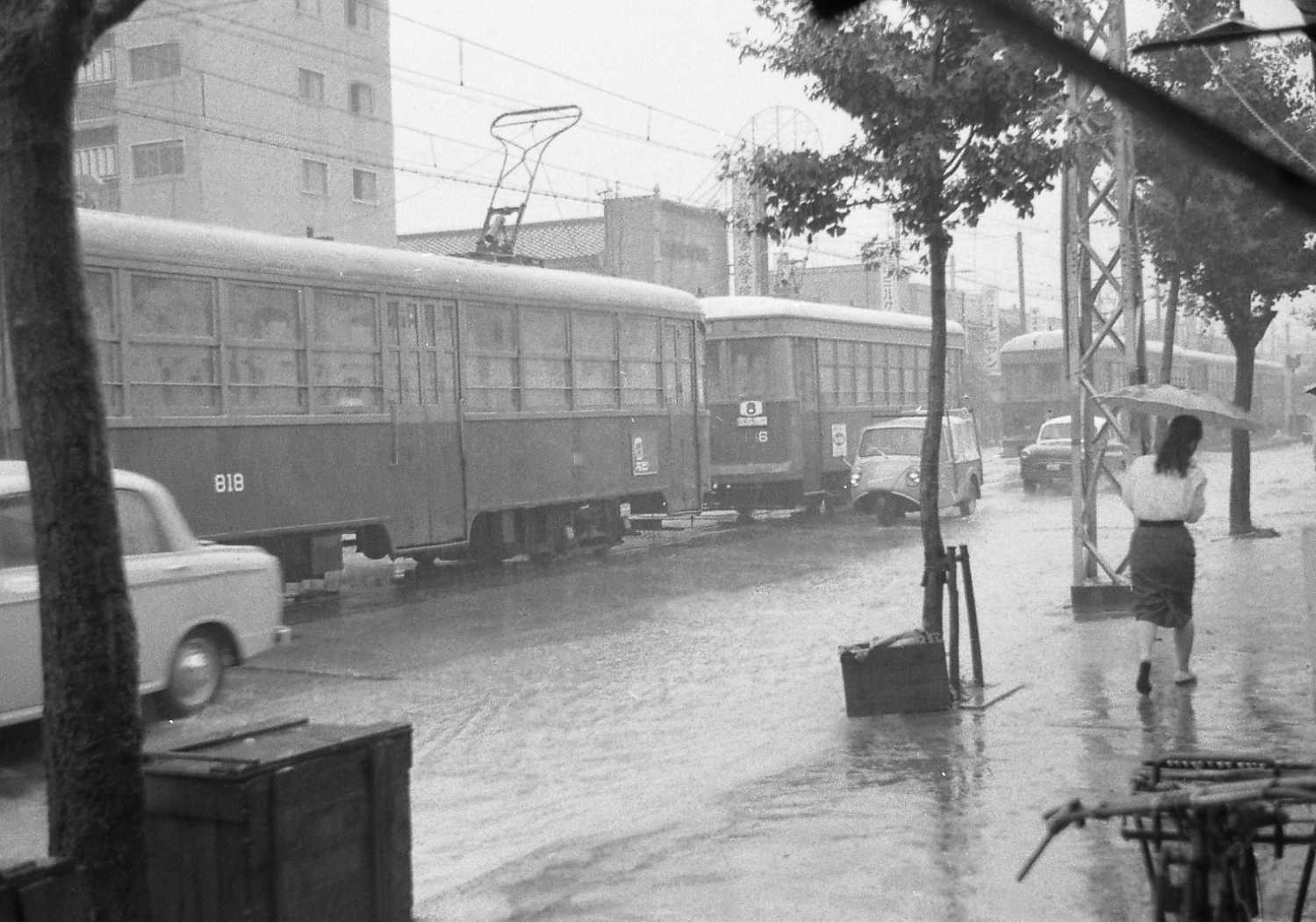 Street view from Kobe, a rainy day in June 1961.